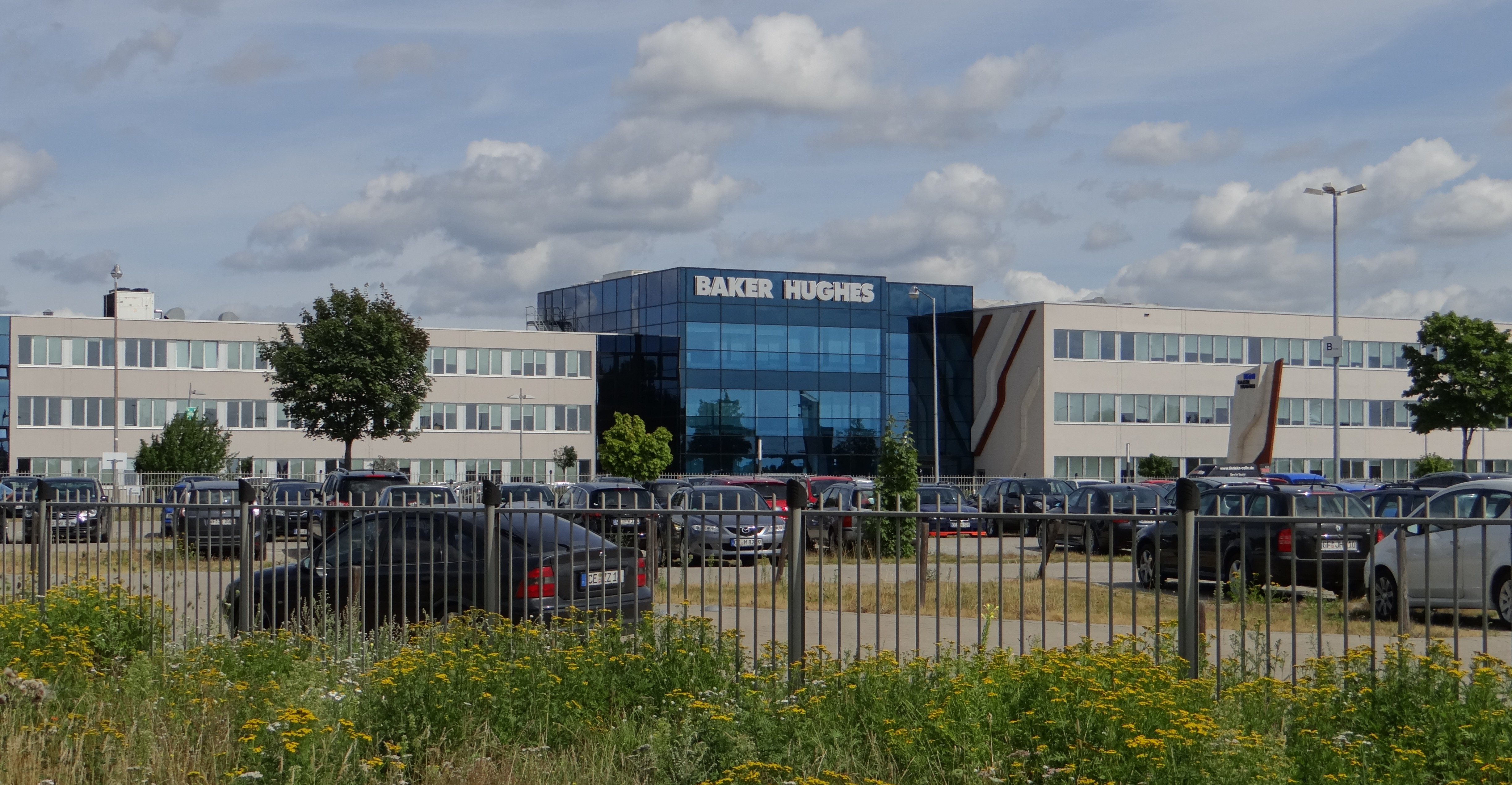 Building of Baker Hughes company in Celle, Germany.